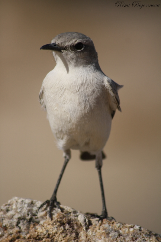 Karoo chat, Namibia.